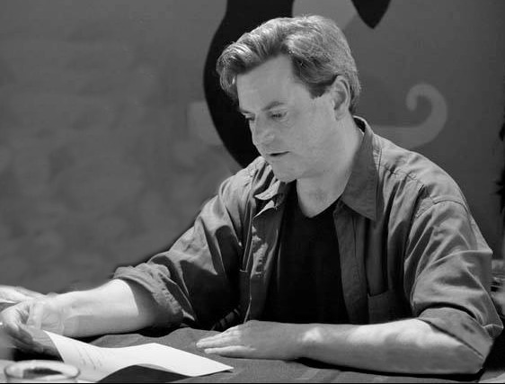 Humanist thinker and illustrator Jeff Stilwell reading aloud from one of his works.